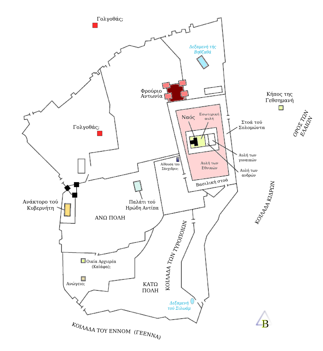 Map of the city of Jerusalem during Jesus' life. (Greek)